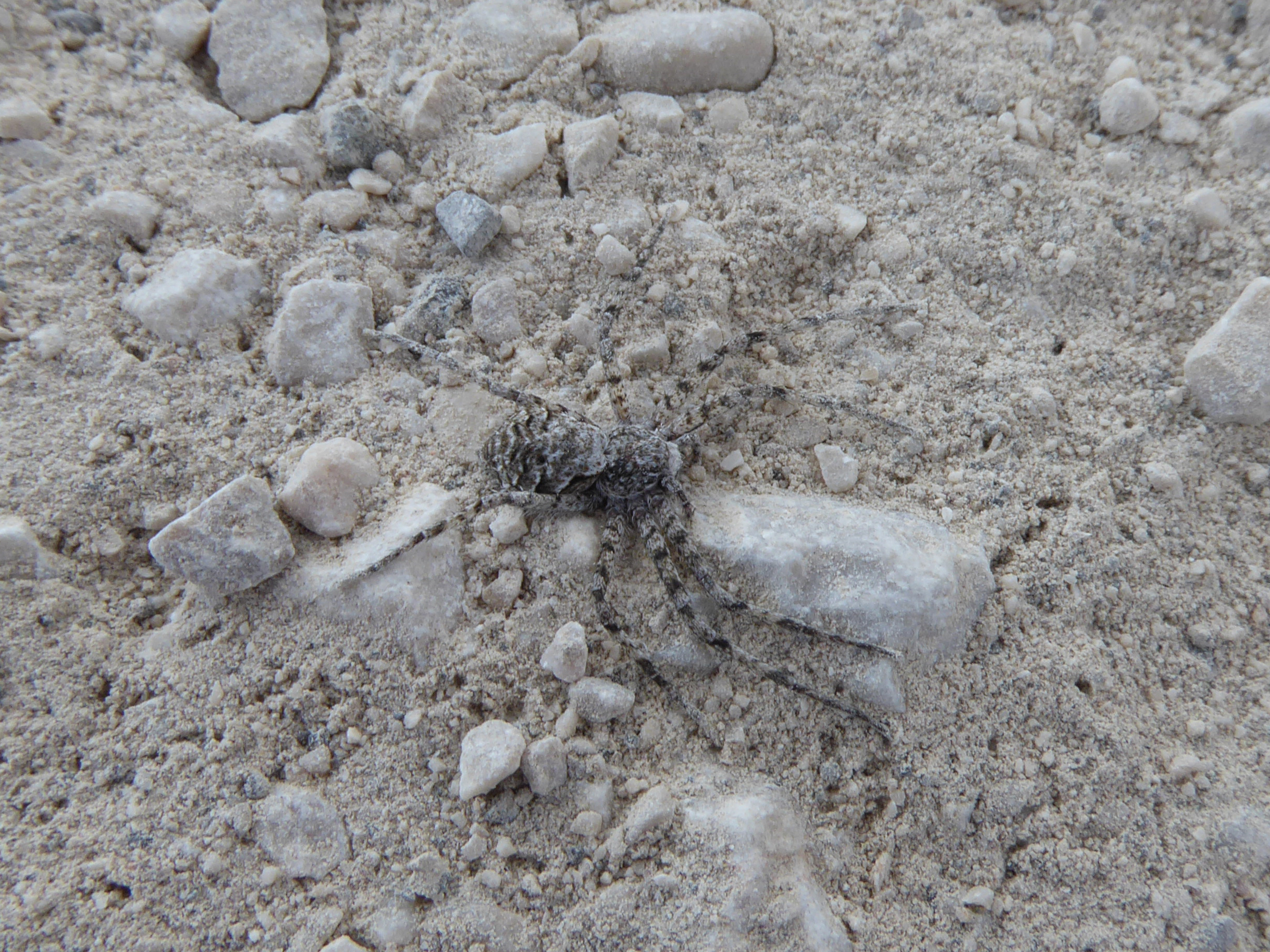 Philodromus margaritatus photographed near the Sass Becè, on the Dolomites above Canazei (Trentino, Italy)